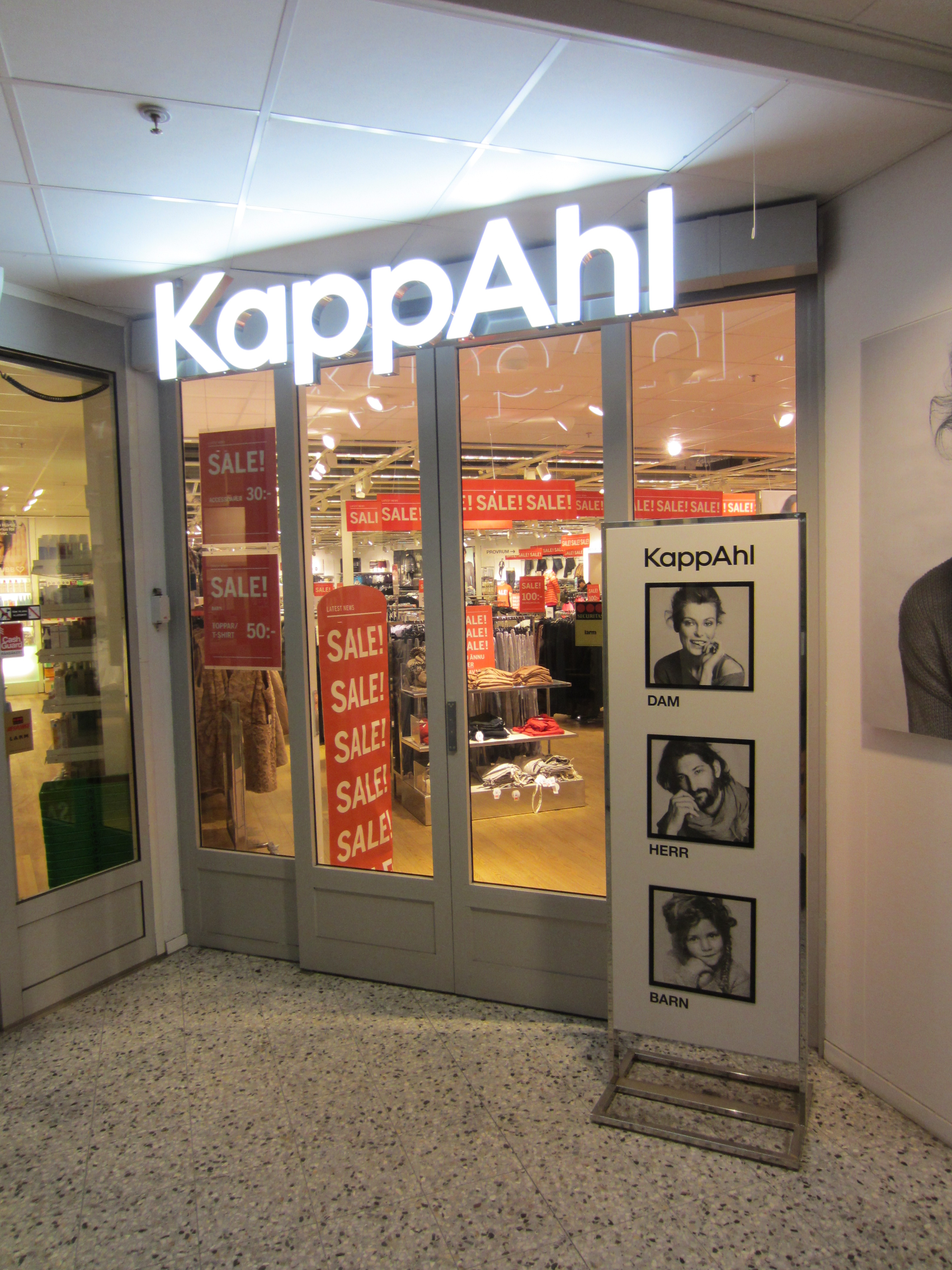 Swedish fashion clothing store "KappAhl" on shopping mall Strömpilen in Umeå, Sweden.